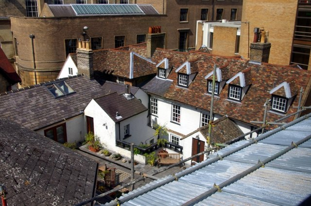 Garden of Fisher House A glimpse of the secret garden in the heart of the city from the upper floor of the Central Library. In the background is the Guildhall extension.